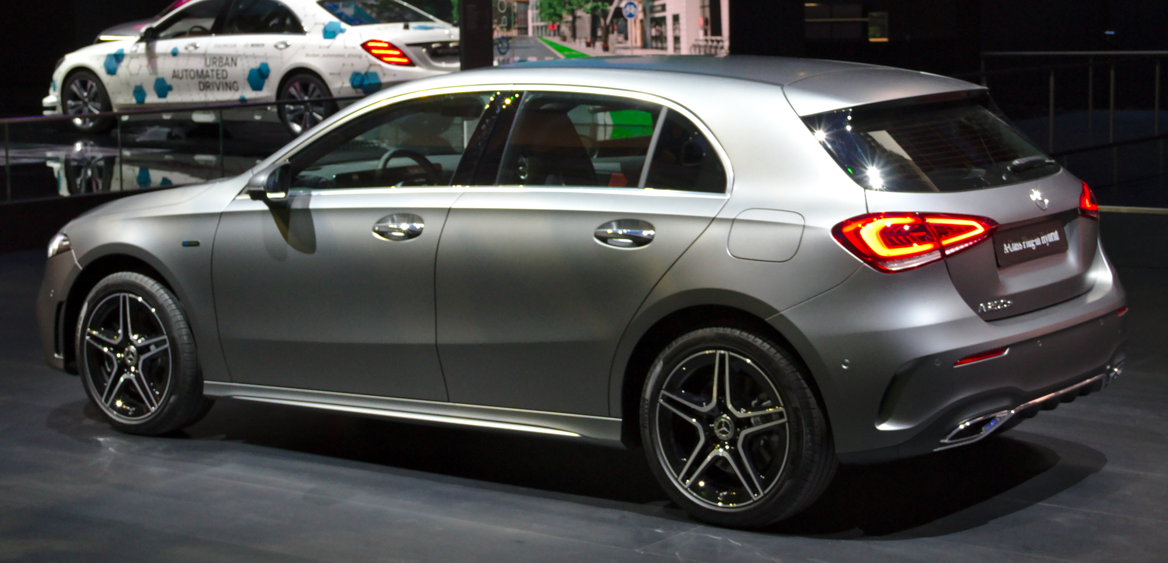 Mercedes-Benz_W177_250_e at IAA 2019